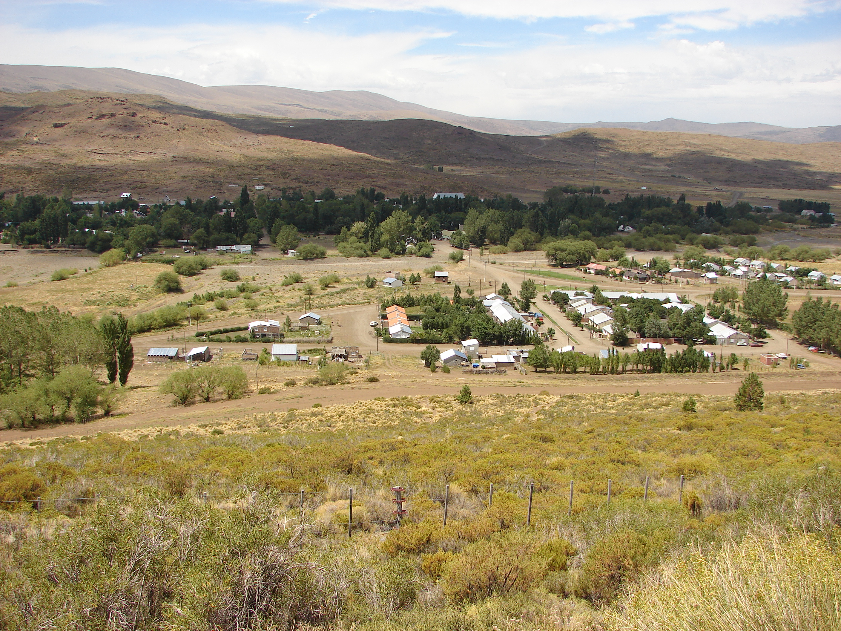 El Huecú, Neuquen Province (Argentina)